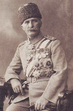 Mehmed Esad Pasha (Bülkat)